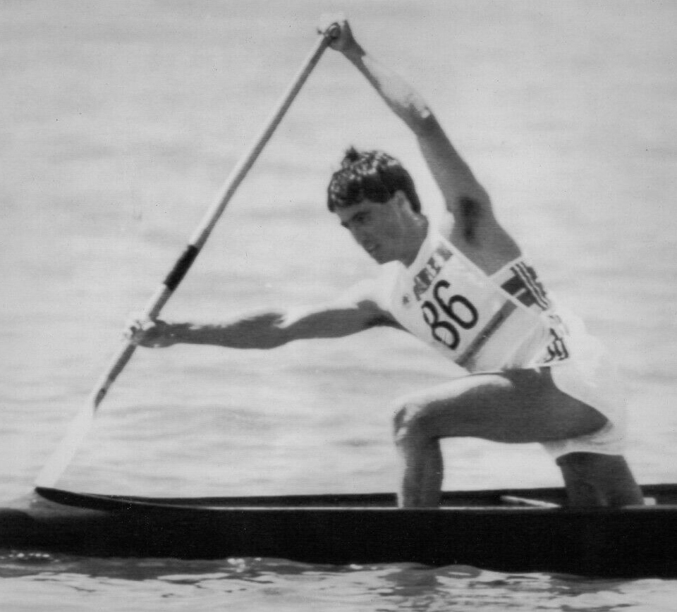 Original Press Wire Photo Olympic Games Los Angeles Kayak Stephen Train 6.8.1984